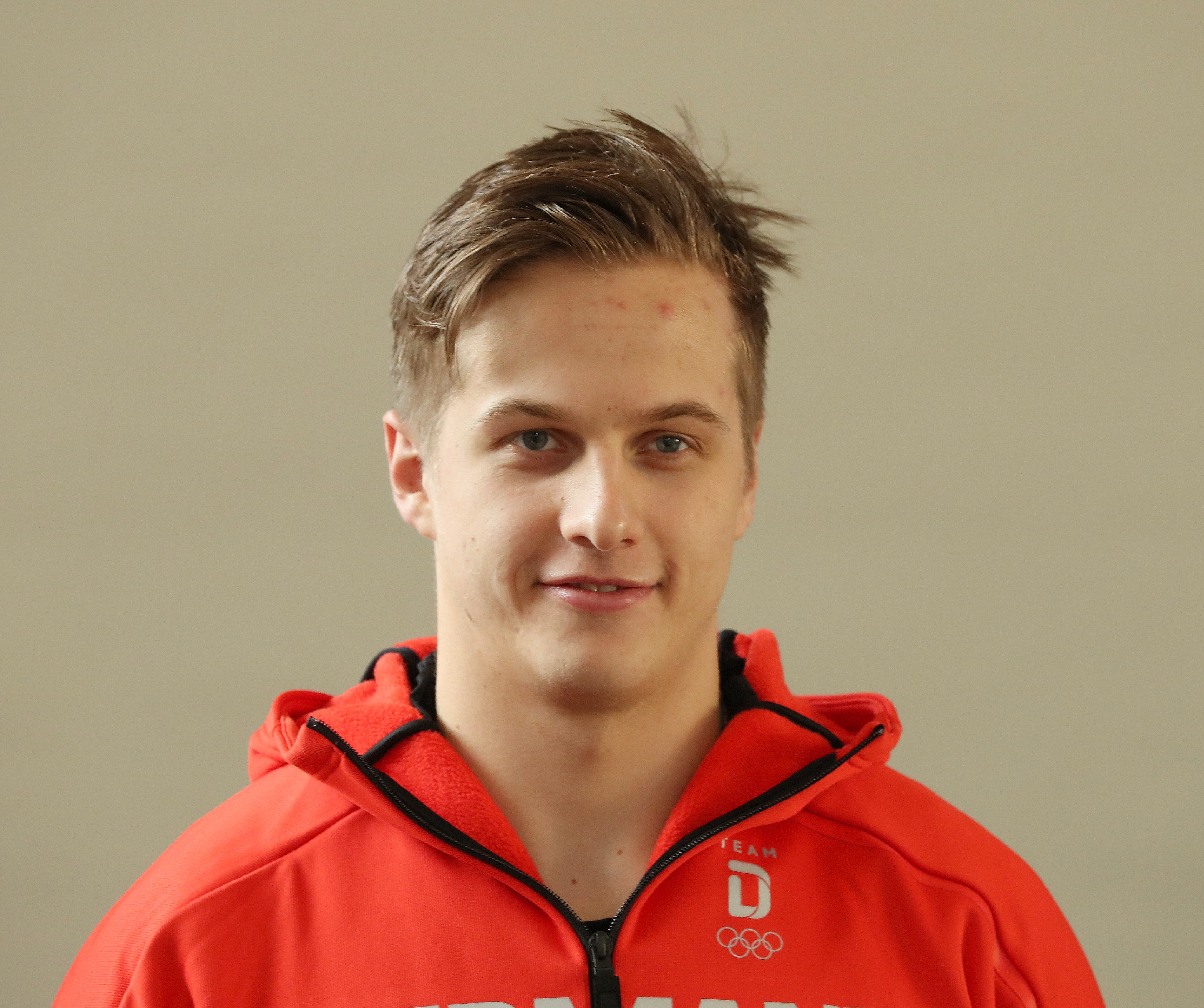 Portraits at the Clothing of the German team for Winter Olympics 2018 in Pyeonchang.